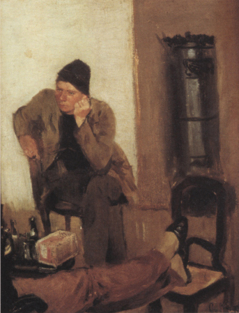 "Charles Lundh in converstion with Krohg" (Charles Lundh i samtale med Krohg), portait of the Norwegian painter Charles Lundh painted by Norwegian painter Christian Krohg in 1883.